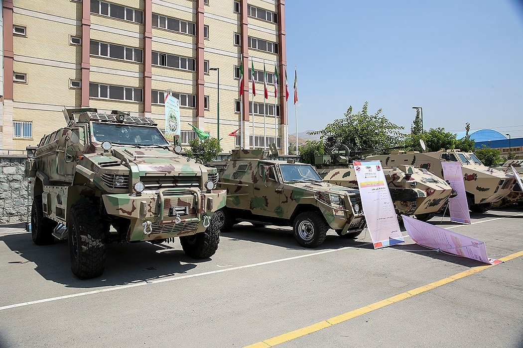 Left to r: Toophan MRAP, Yuz armored car, Unknown APC, Rakhsh APC